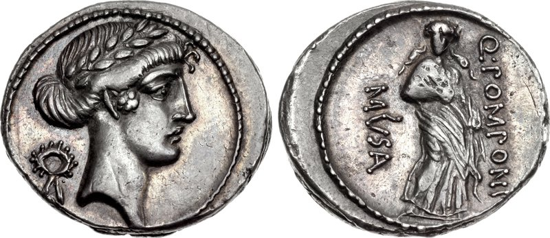 Q. Pomponius Musa. 56 BC. AR Denarius (19mm, 3.98 g, 12h). Rome mint. Laureate head of Apollo right; wreath tied with fillet to left / Polyhymnia, the Muse of Divine Hymns and Sacred Poetry, wearing long flowing tunic and peplum, standing facing, her head bound with wreath; Q • POMPONI downwards to right, MVSA downwards to left.